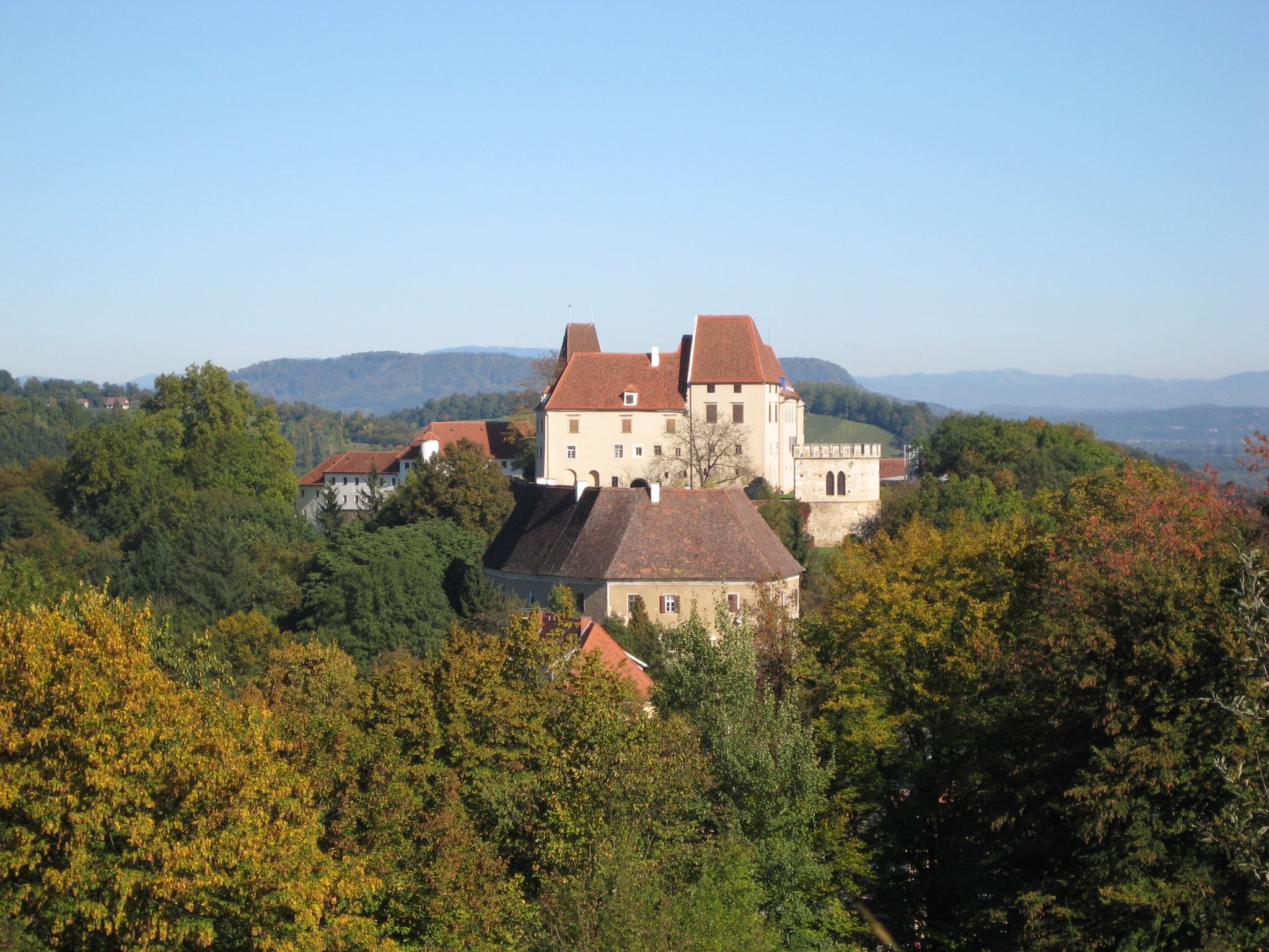 Seggau-Castle in Styria / Austria